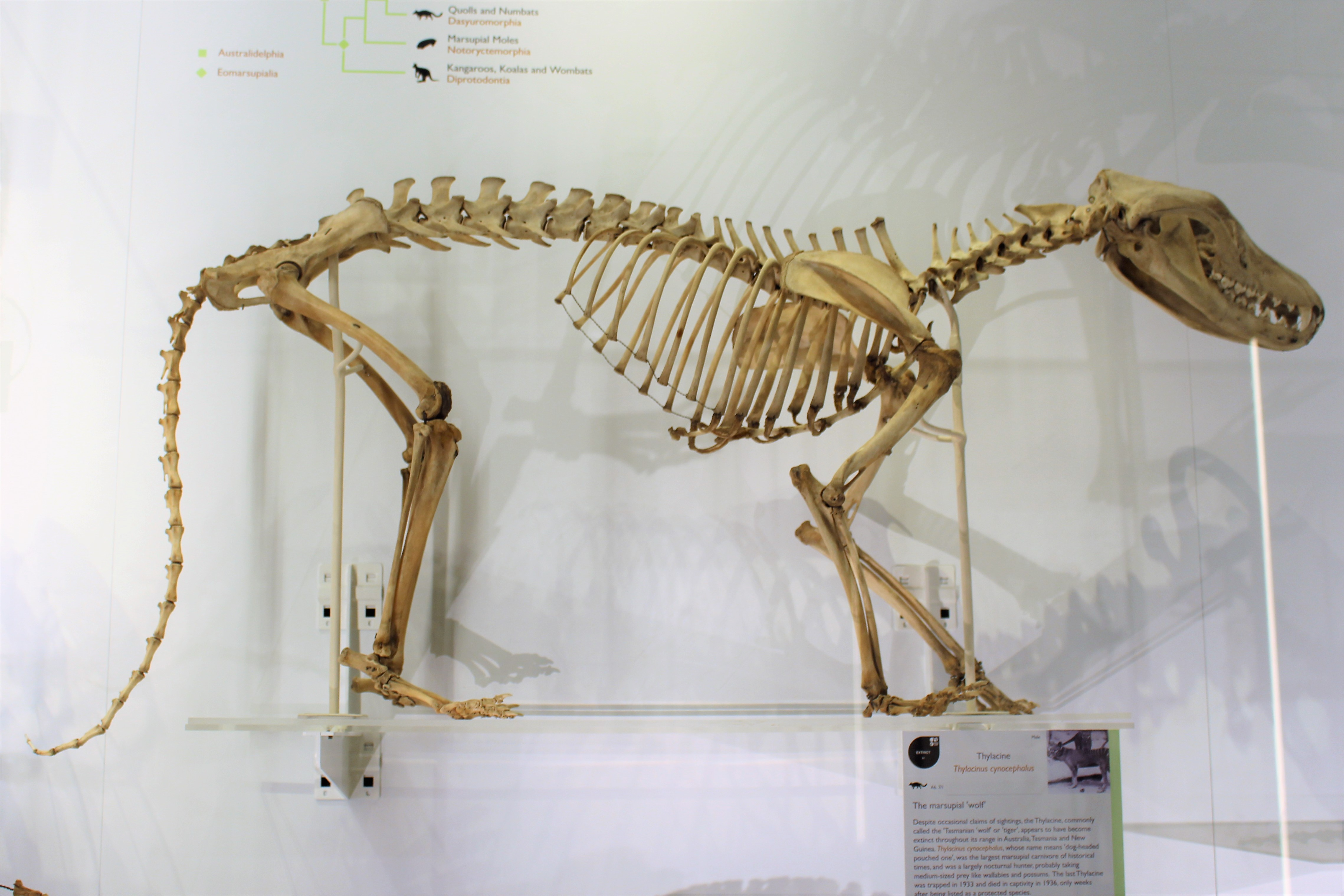 Tasmanian tiger or Tasmanian wolf (Thylacinus cynocephalus) skeleton at the Cambridge University Museum of Zoology, England.